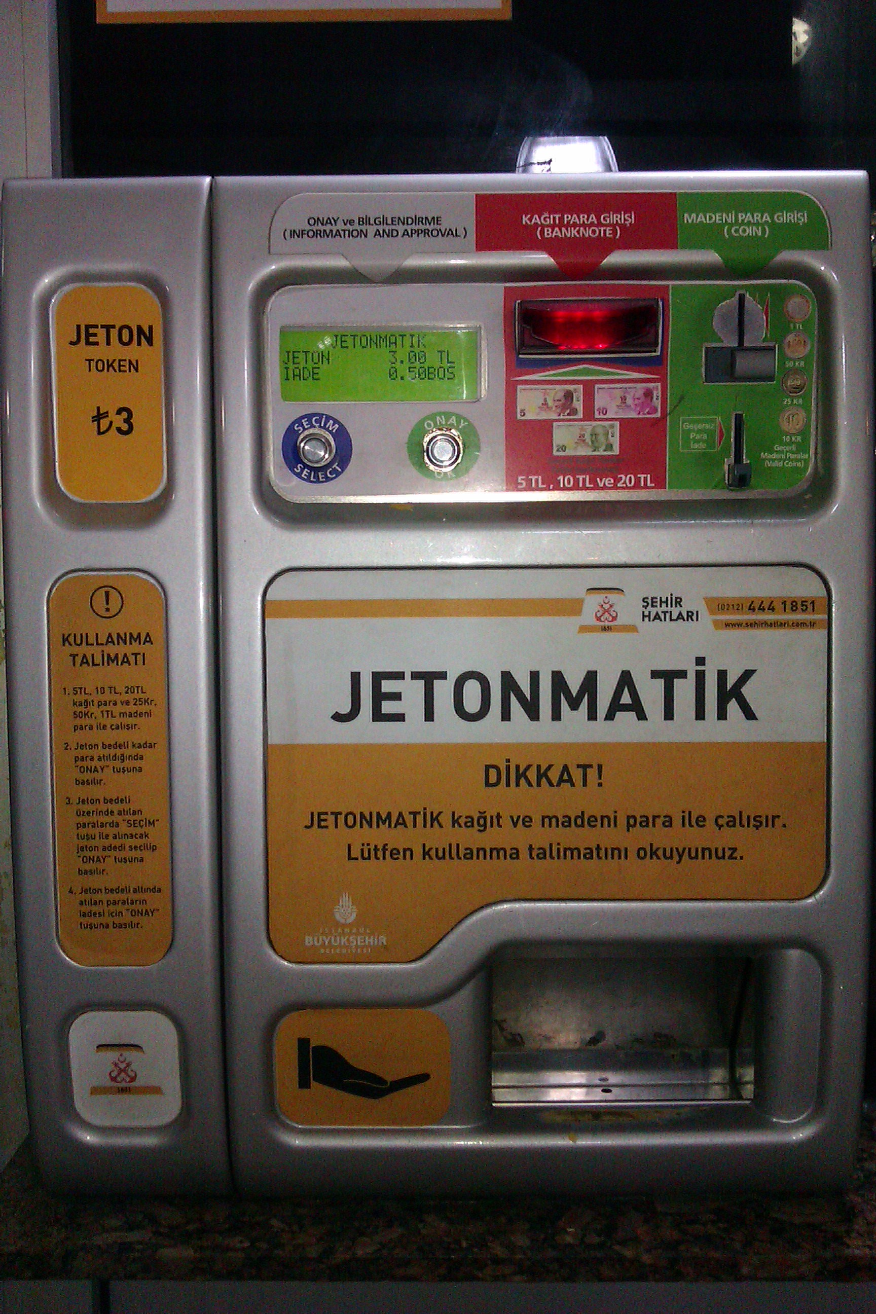 Istanbul Metro jeton vending machine